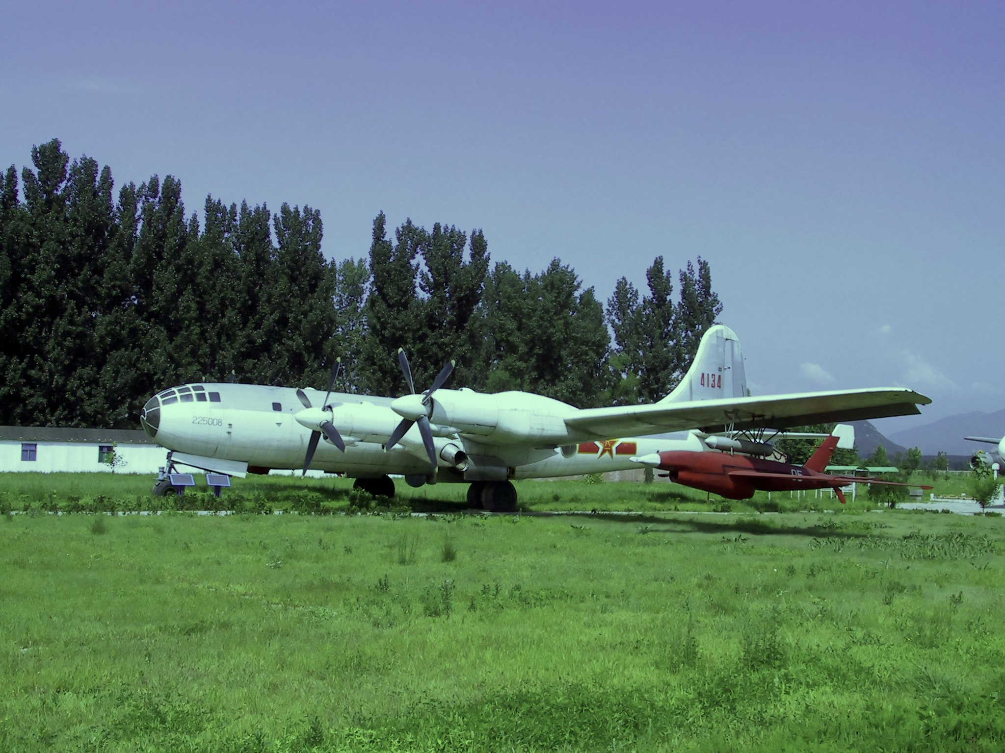 China Aviation Museum, 2002